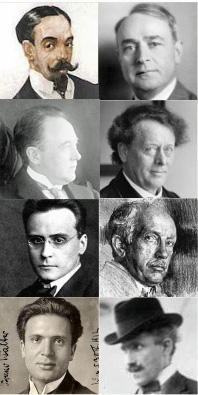 Images from Wikimedia Commons of eight conductors of the 1930s.